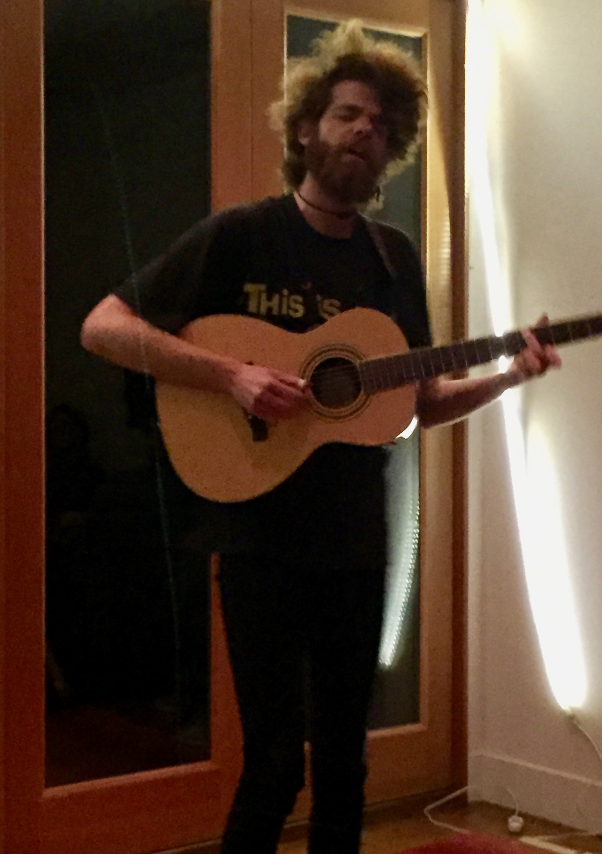 Performing at Sofar Sounds San Francisco January 20, 2017